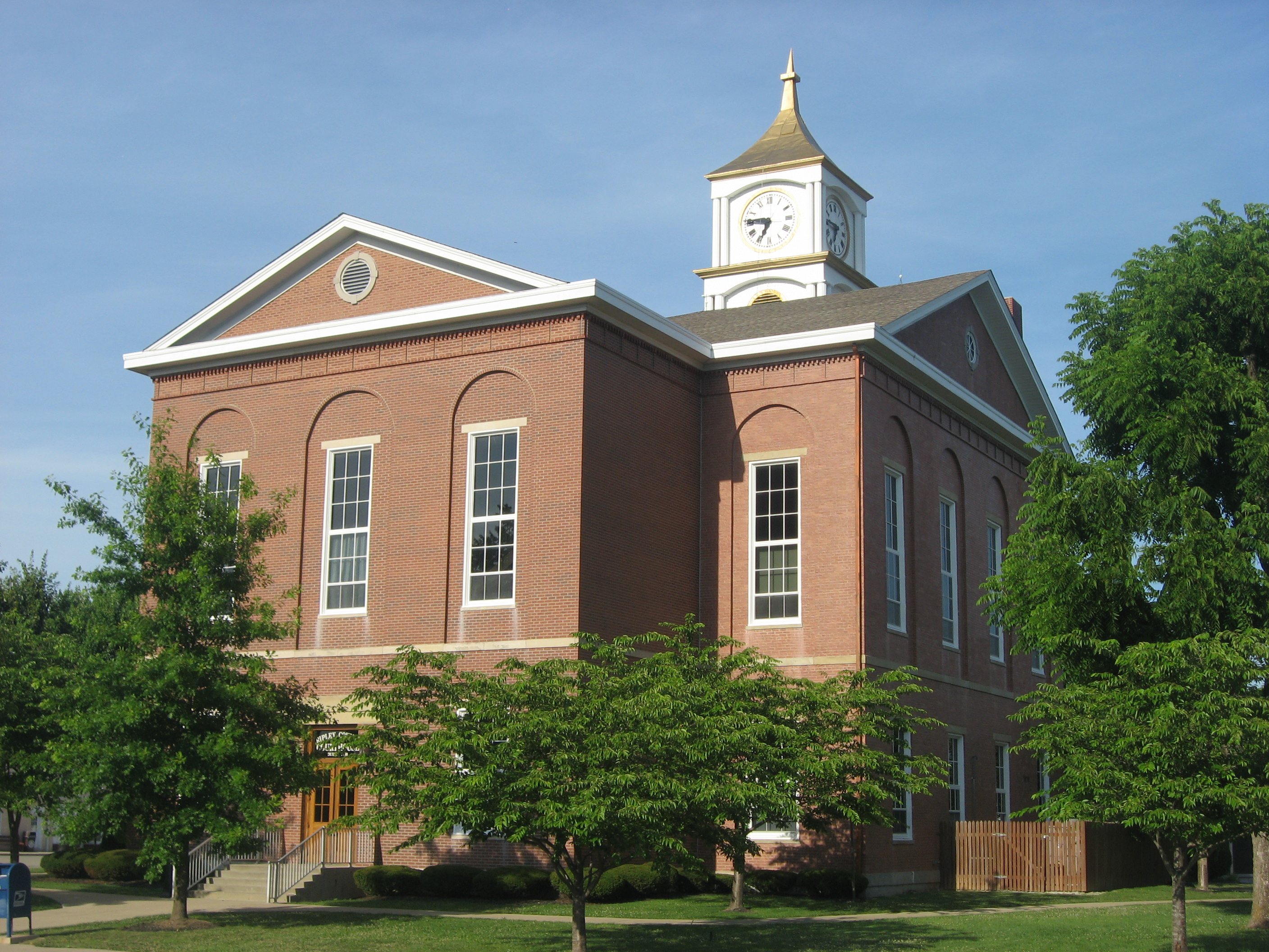 Western and southern sides of the Ripley County Courthouse, located on Courthouse Square in Versailles, Indiana, United States. Built in 1861, it is listed on the National Register of Historic Places, and it is part of the locally-designated Versailles Courthouse Historic District.